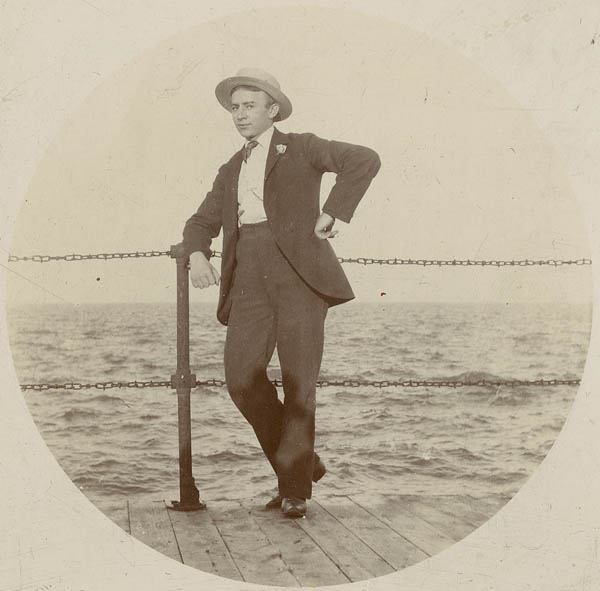 Curt Teich, ca. 1895. Curt Teich Postcard Archives, Lake County Discovery Museum, Wauconda, Illinois.